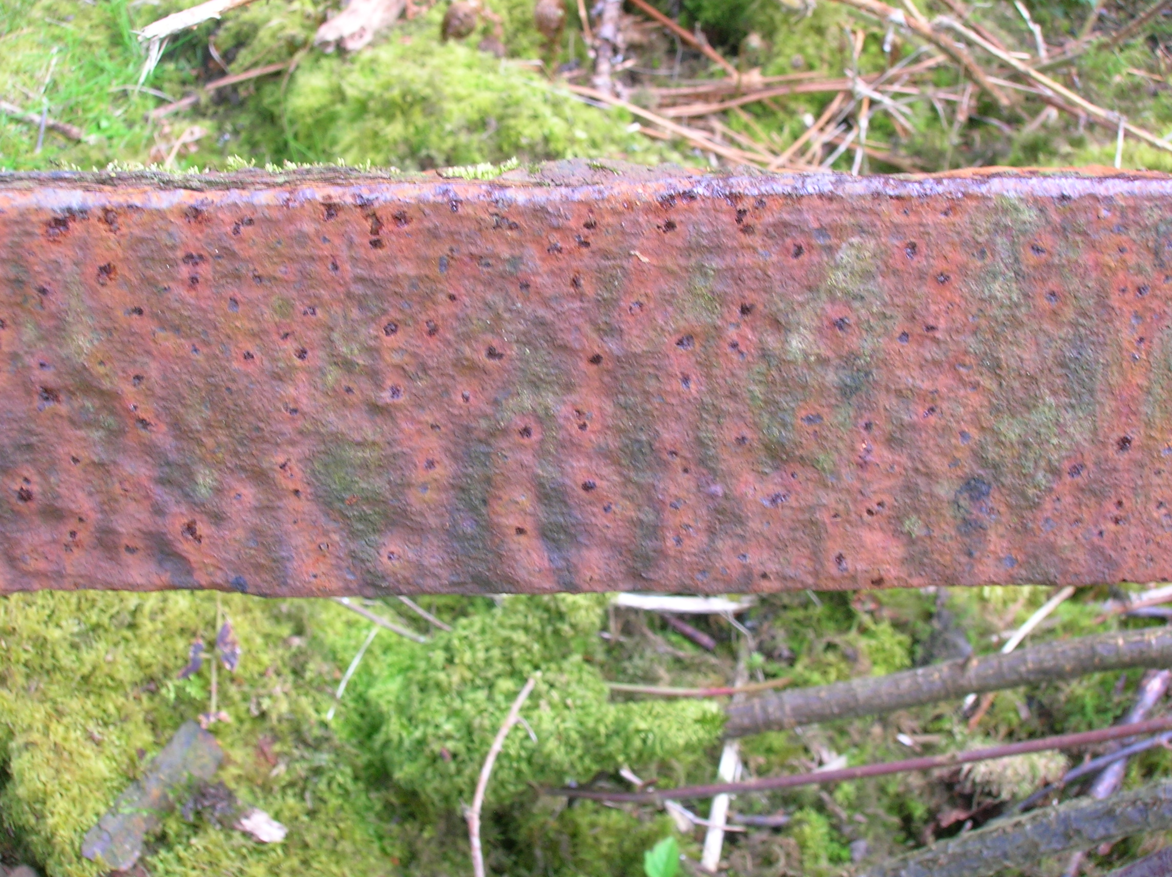 The underside of the Vignole rail from the Ardrossan and Johnstone Railway of 1831. Benslie, North Ayrshire, Scotland.